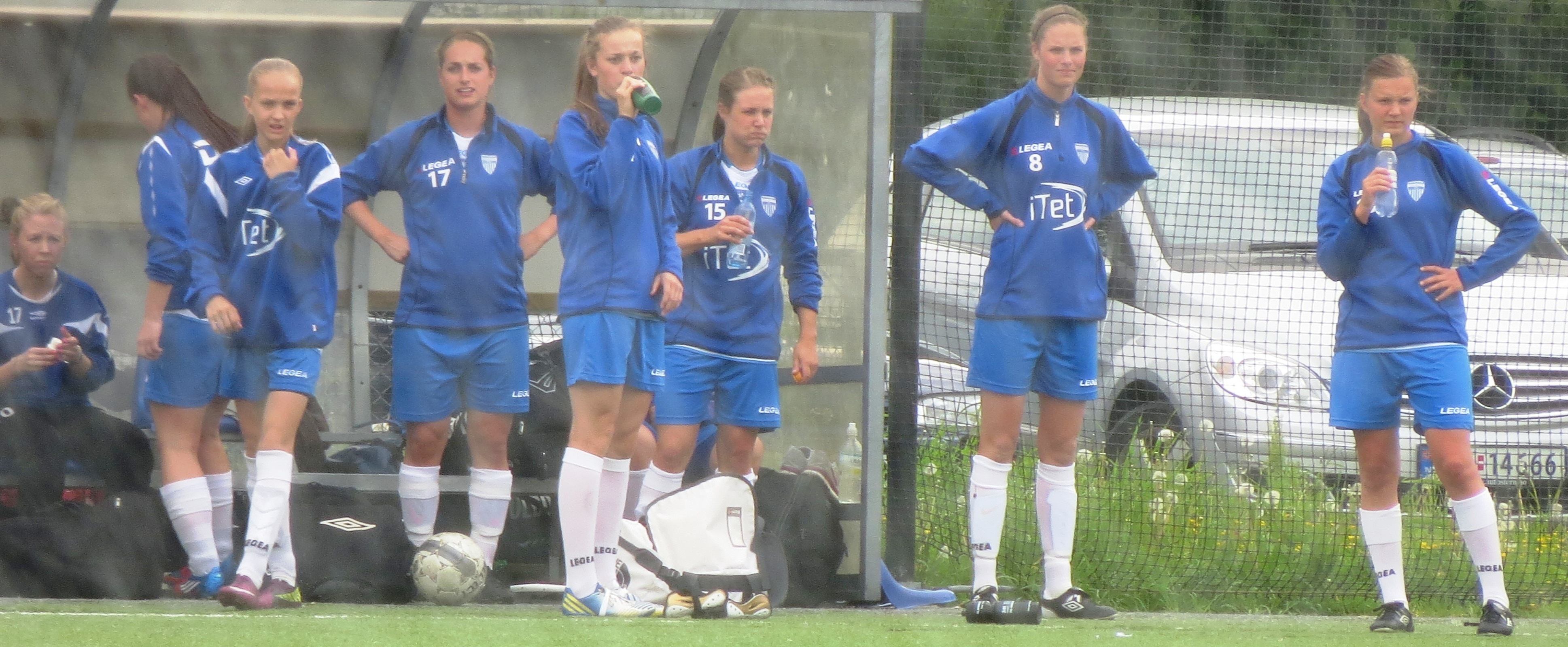 Image from women's football match between Stabæk and Kolbotn IL, at the Nadderud Stadium, Bærum (Norway).